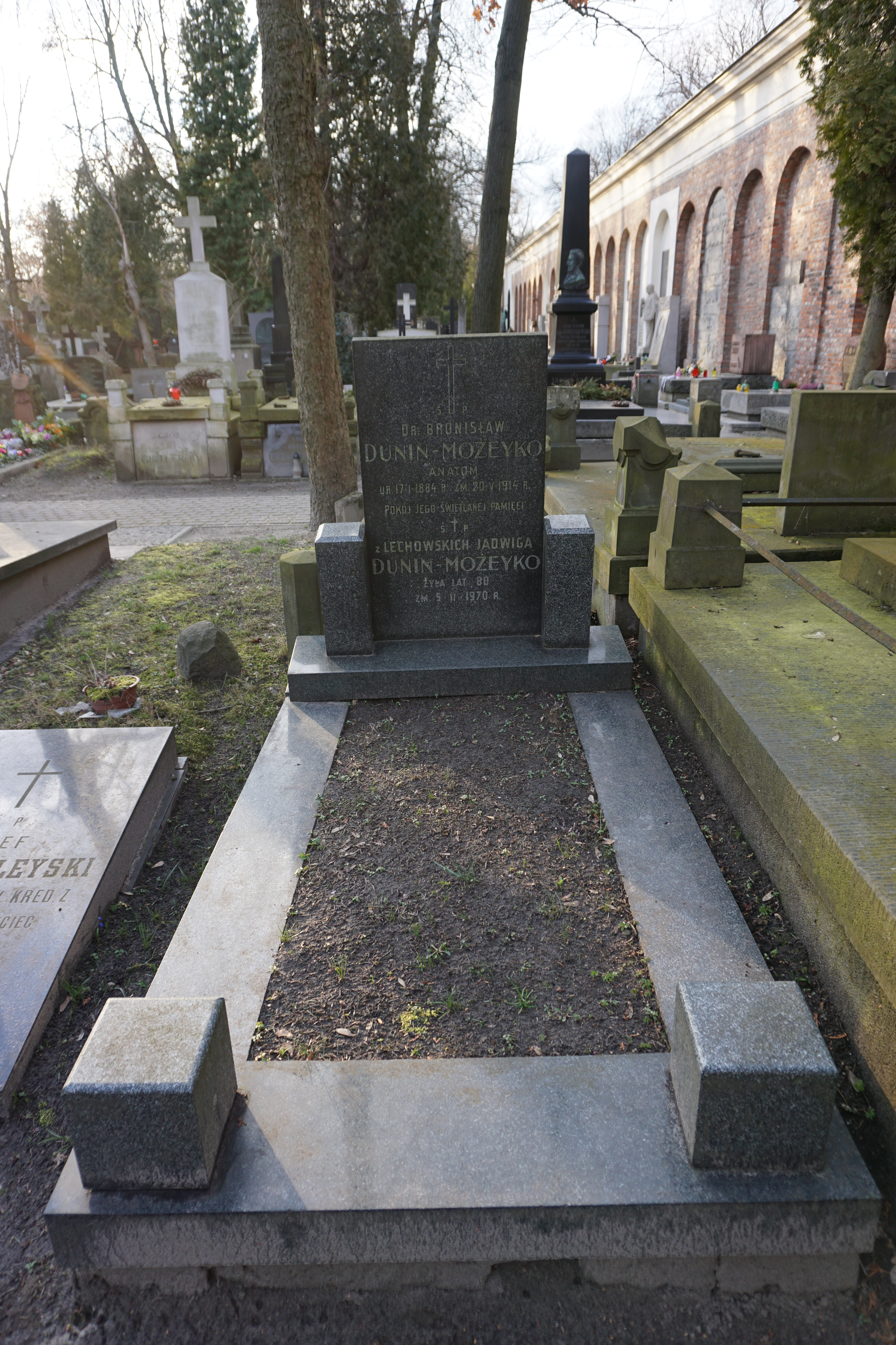 The grave of Bronisław Możejka at the Powązki Cemetery (section 168, row 5, grave 3)